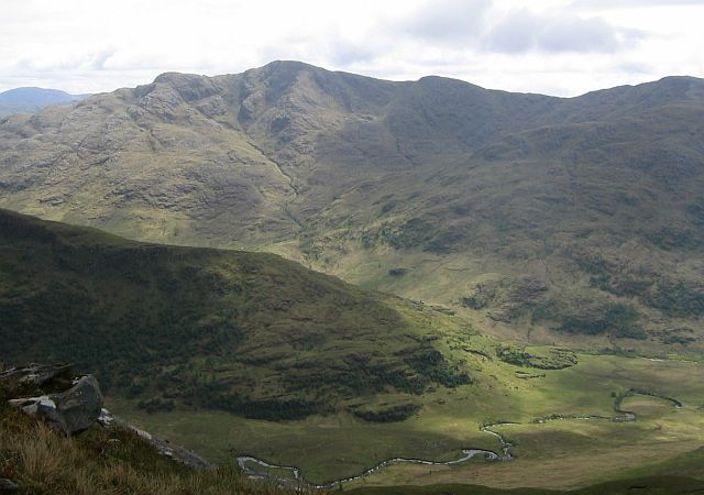 Beinn Bhuidhe The corries and ridges of Knoydart's Beinn Bhuidhe seen from Stob an Uillt-fearna.